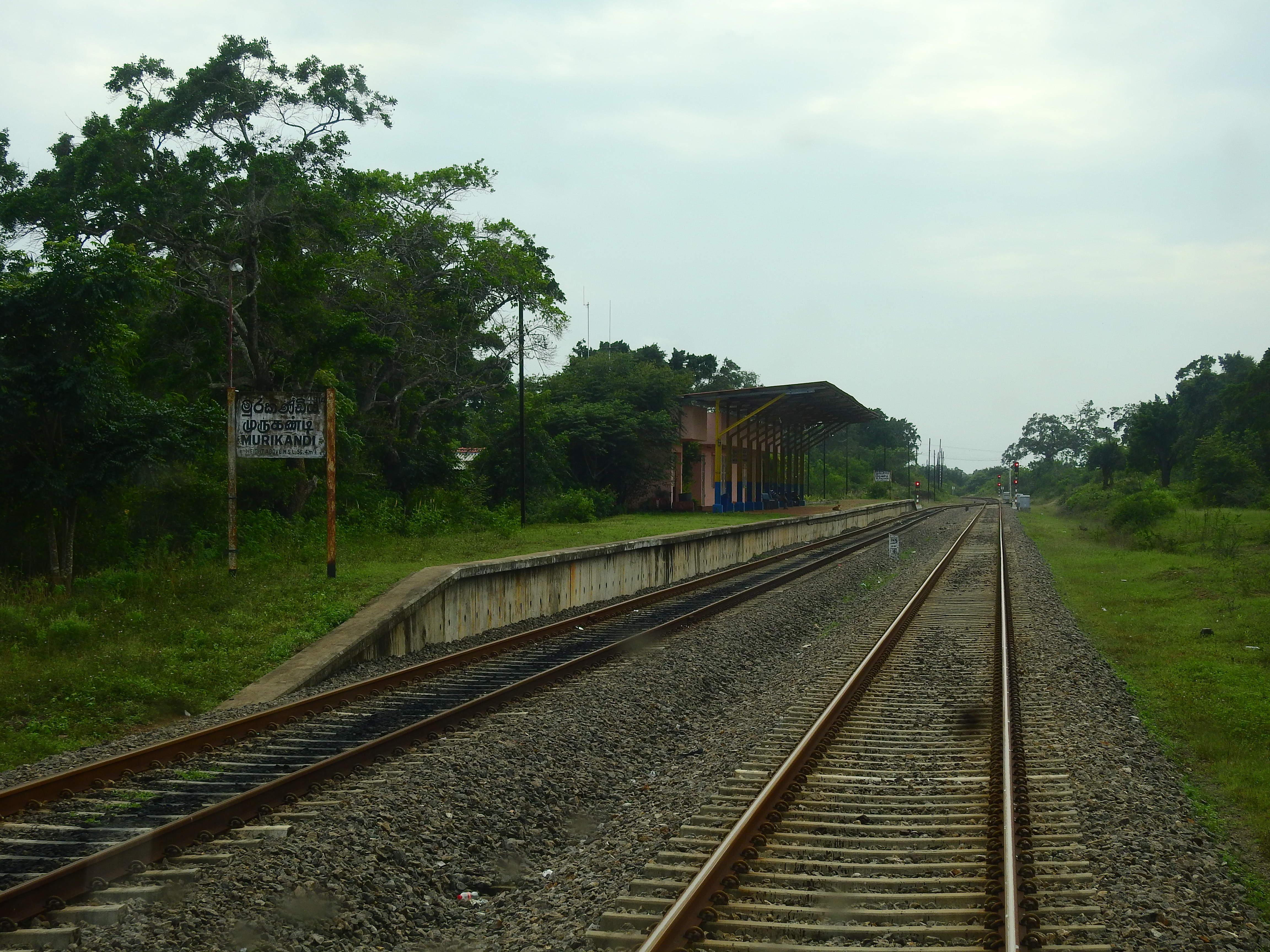 Murikandi Railway Station, Sri Lanka.